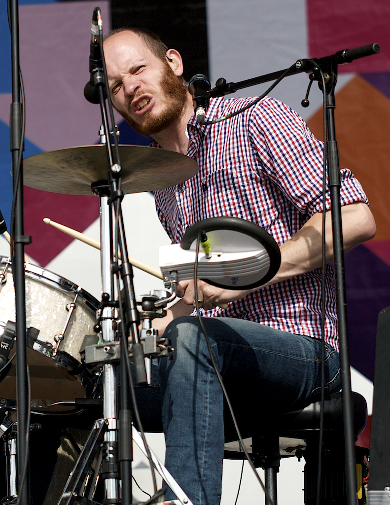 Asger Techau drummer for the danish band Kashmir.